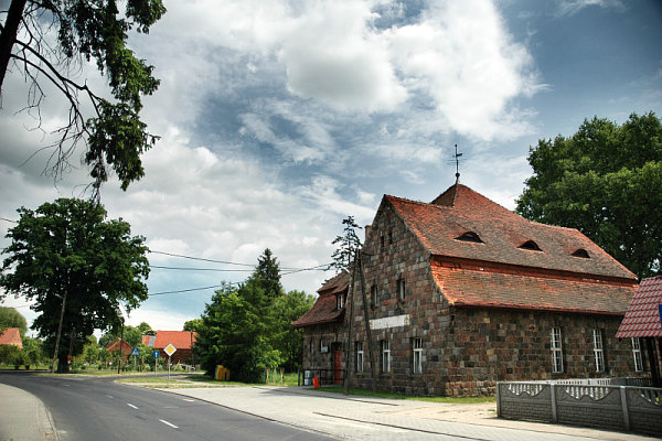 library in the village of Smardzewo, Lubusz Voivodeship, Poland